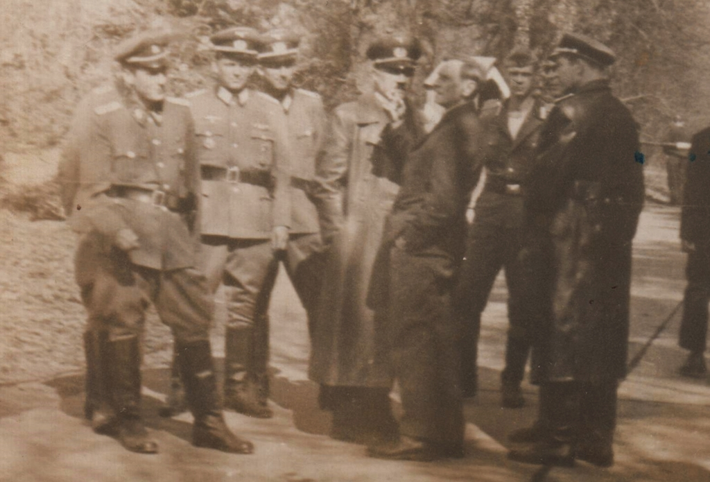 Actors on the set in Wolfschanze, Gierłoż, Poland 1968, film "Liberation" (film series), translit. Osvobozhdenie, directed by Yuri Ozerov. The series was a Soviet-Polish-East German-Italian-Yugoslav co-production. In the photo, the director's assistant (with a hand in his pocket) talks to actor Fritz Diez (Adolf Hitler), alongside Fritz Diez, Marian Proszyk (aide, Wehrmacht officer)